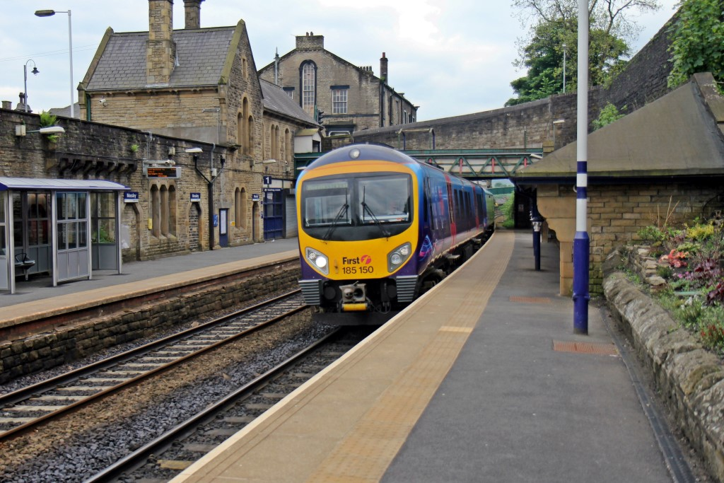 First TransPennine Class 185, 185150, Mossley railway station